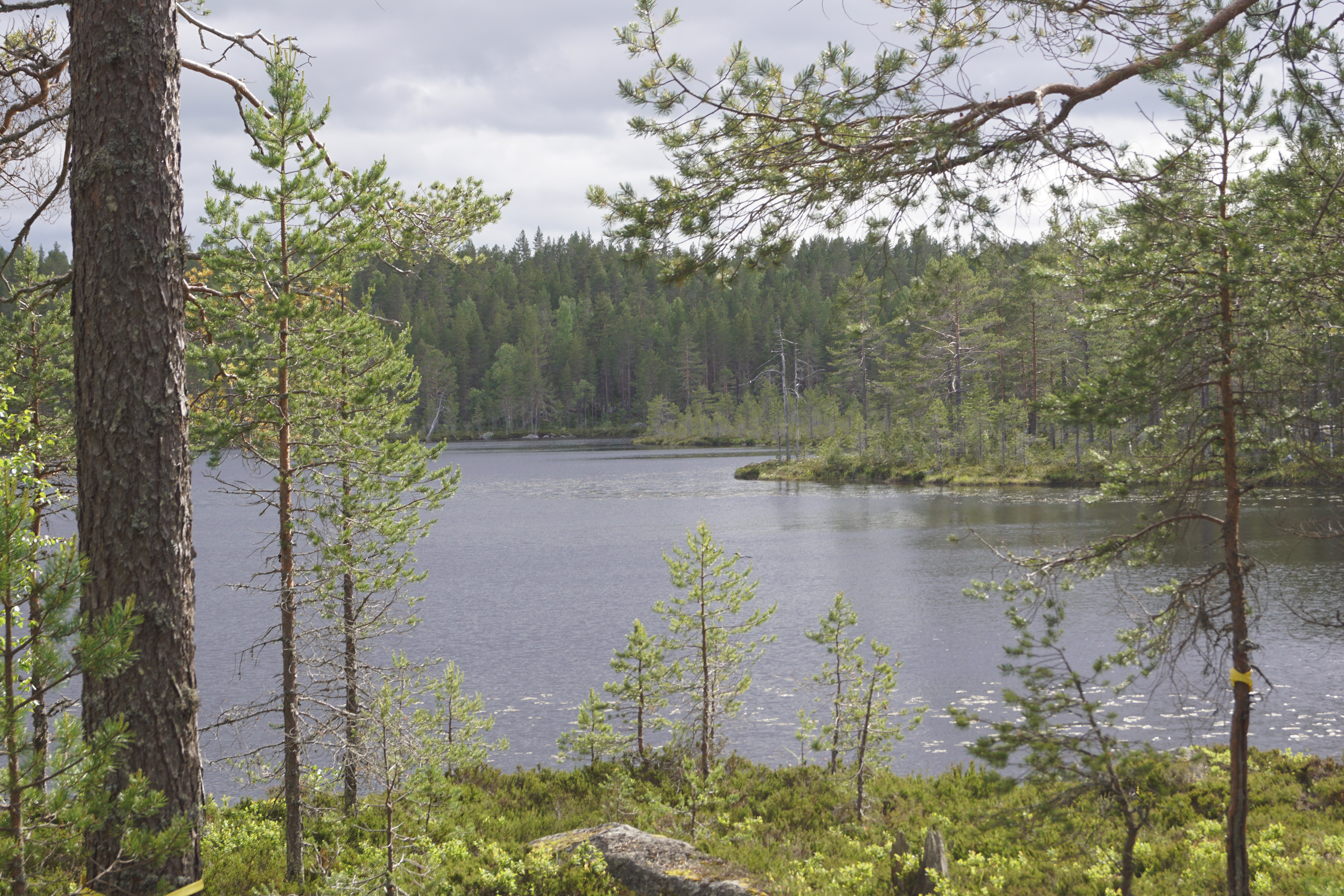 Aborrtjärnen, a small a lake in Grossjöberget nature reserve in Bollnäs Municipality, Sweden.